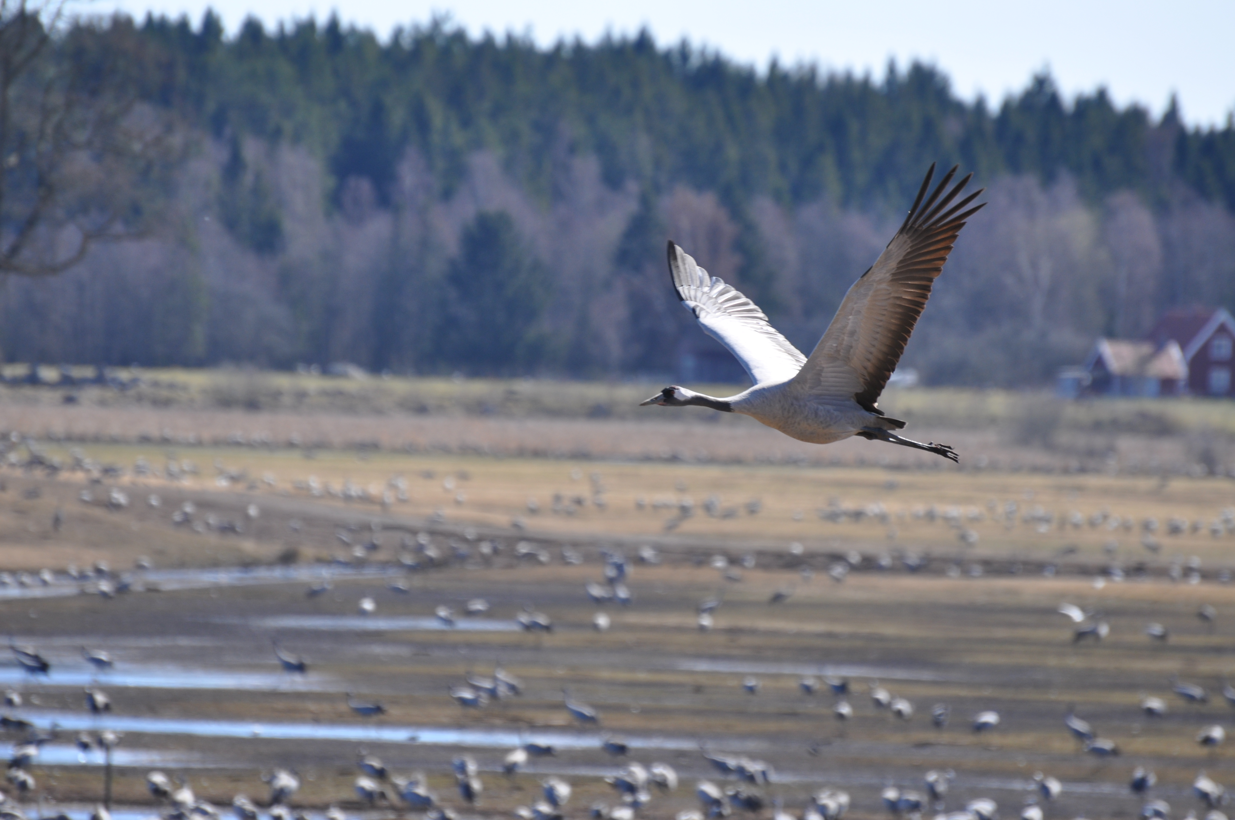 A crane flying over the southern outpost at lake Hornborga